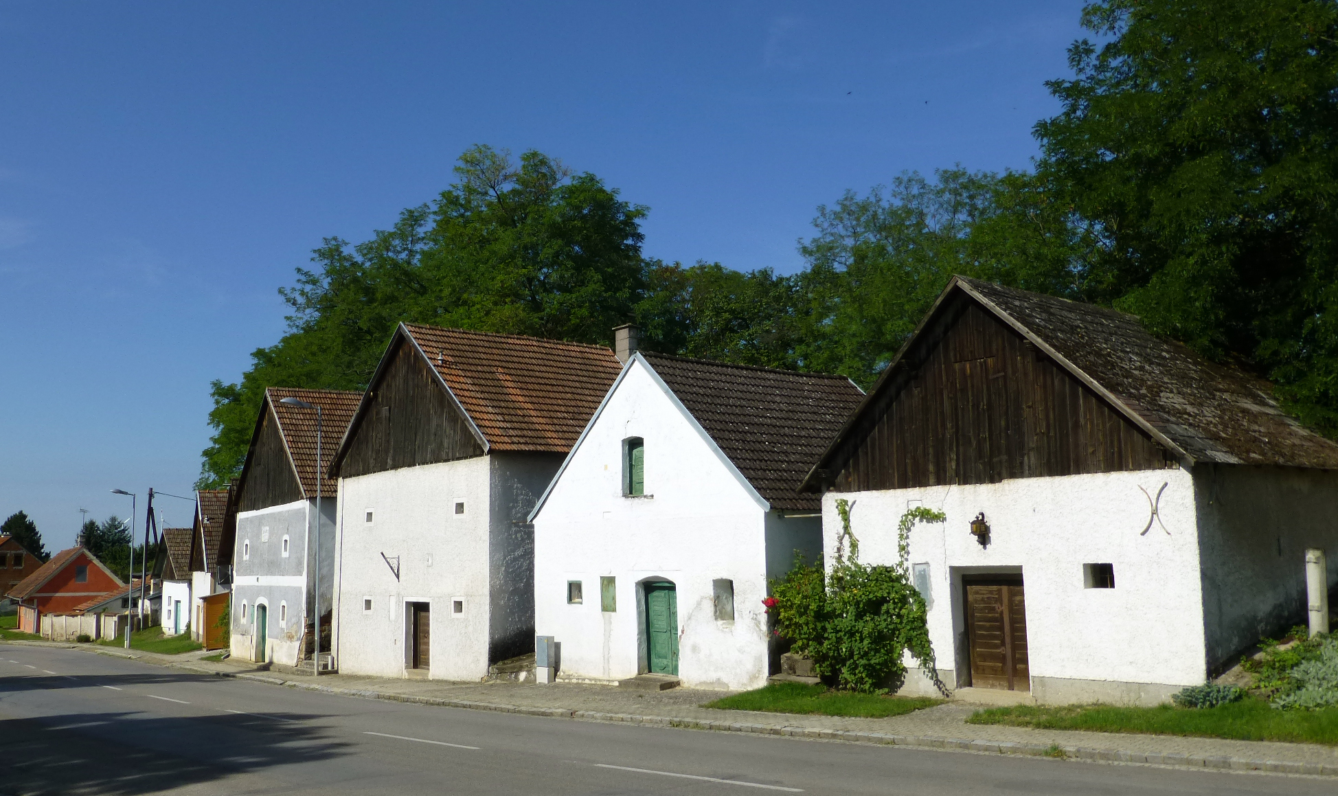 Kellergasse north of Grosskrut, road B47, District of Mistelbach, Lower Austria. The green door is dated 1877.